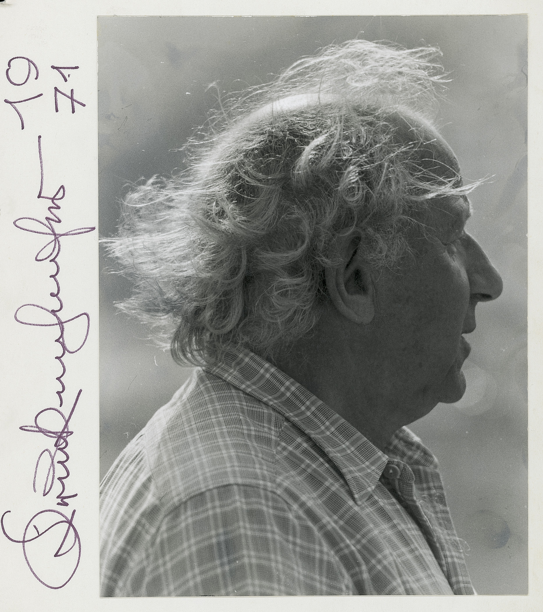 portrait of the photographer Stefan Kruckenhauser, signed by him. picture taken by Kurt Kaindl.